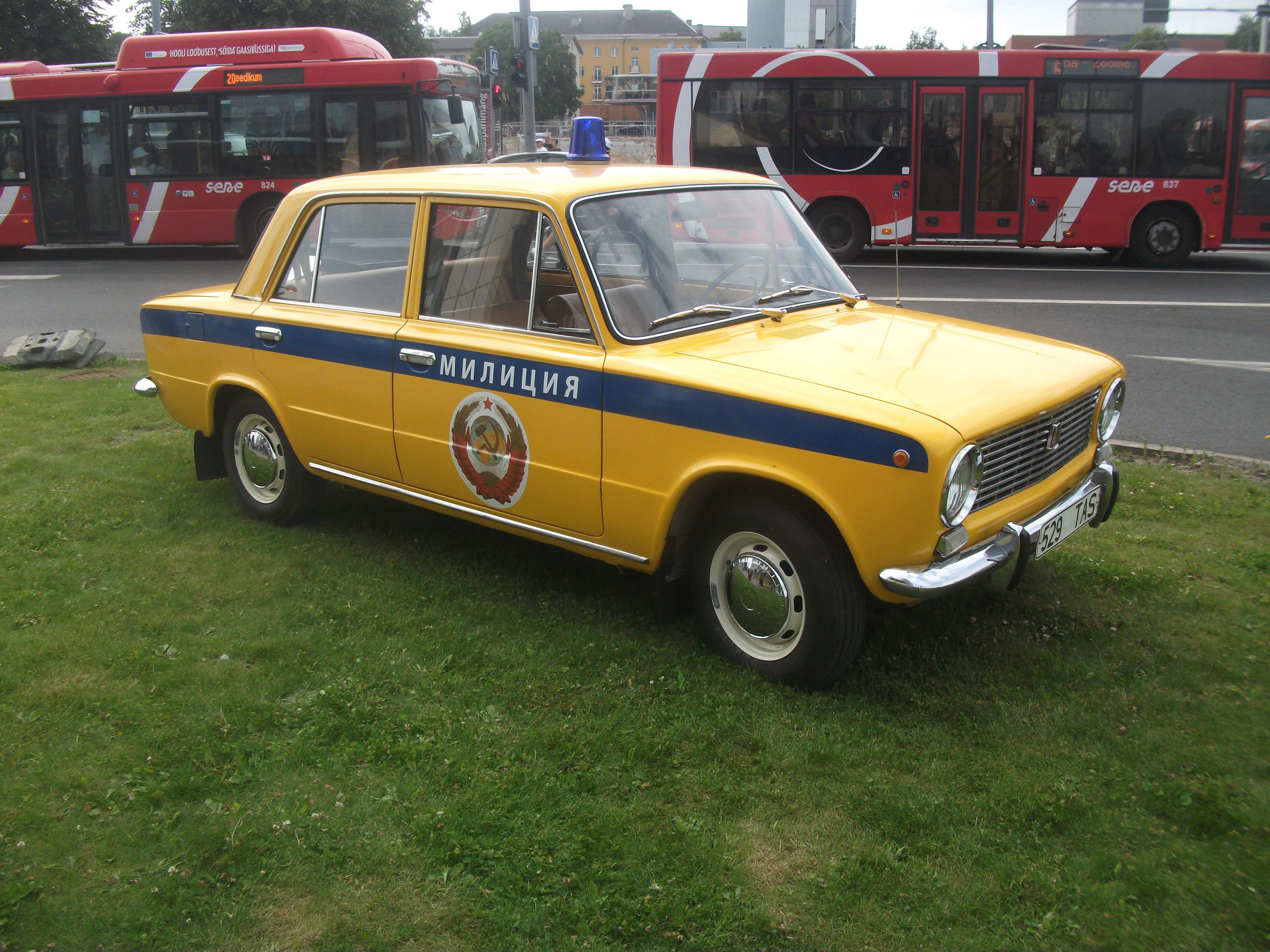 Militians VAZ-2101 after reconstruction, Tartu 2014